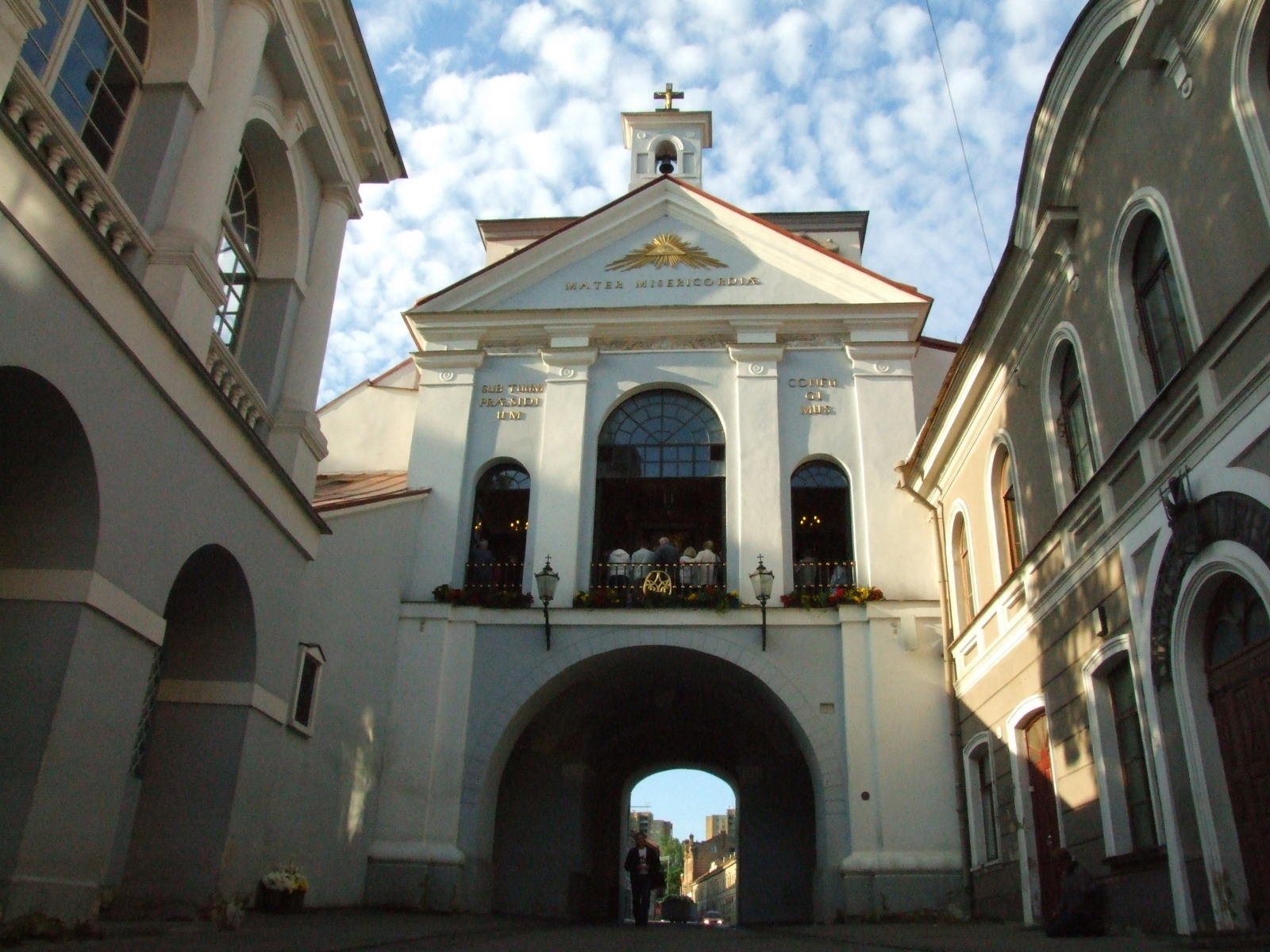 The Gate of Dawn (Aušrus vartai)